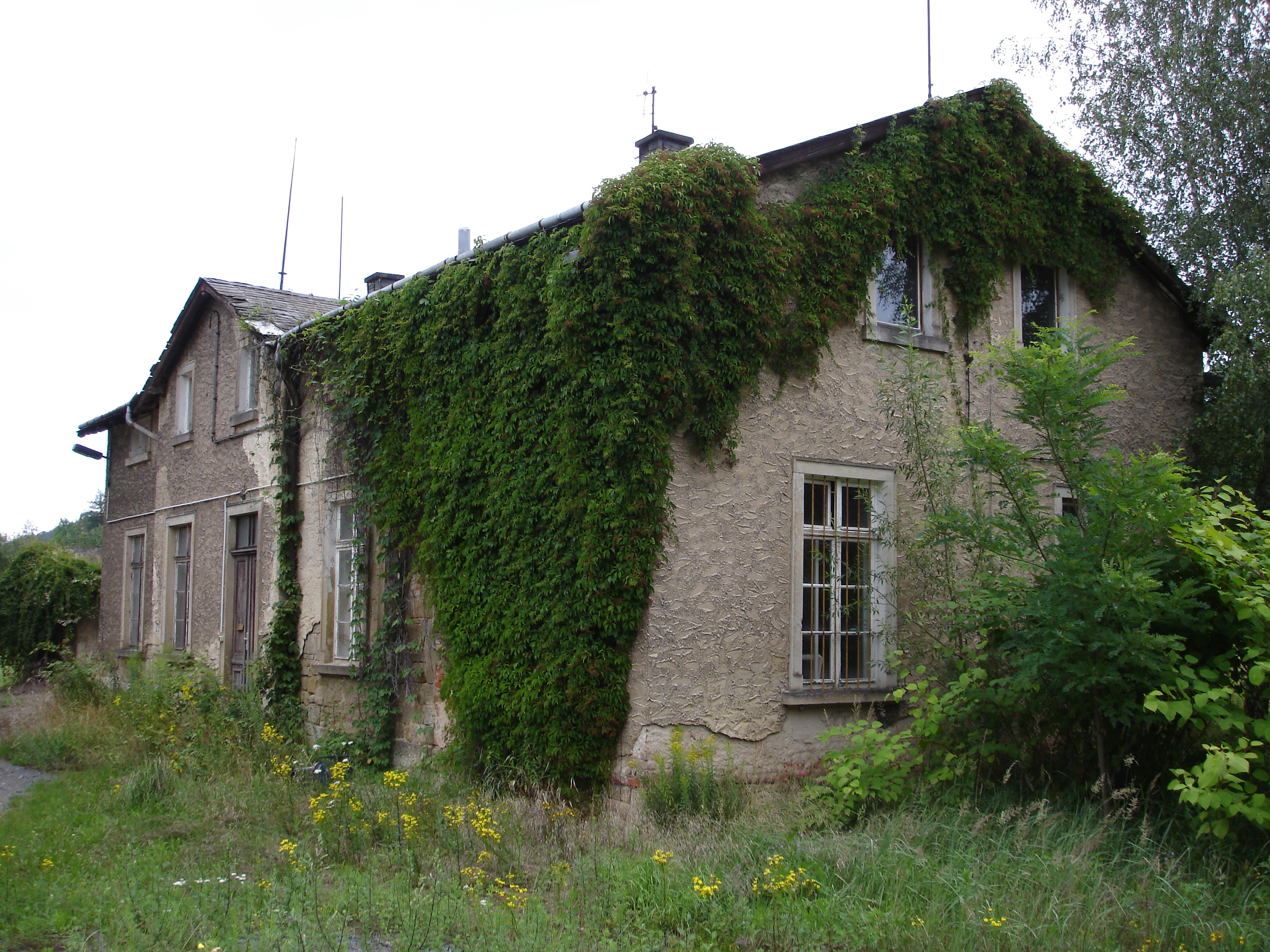 station Pirna-Rottwerndorf, Gottleubatalbahn, Saxony, Germany